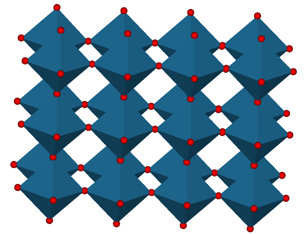 polyhedral representation of the crystal structure of ReO3